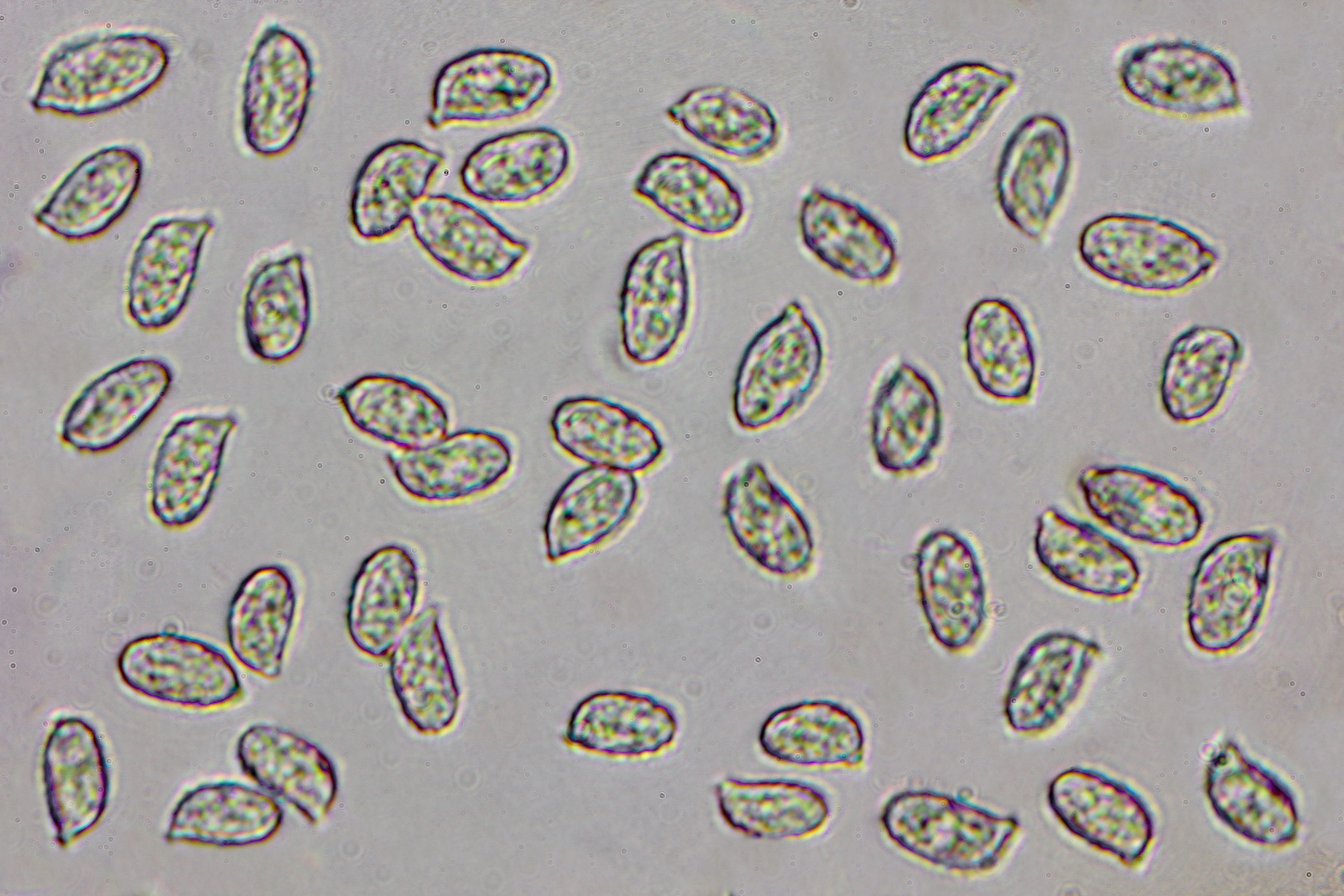 Template:Mushroomobserver